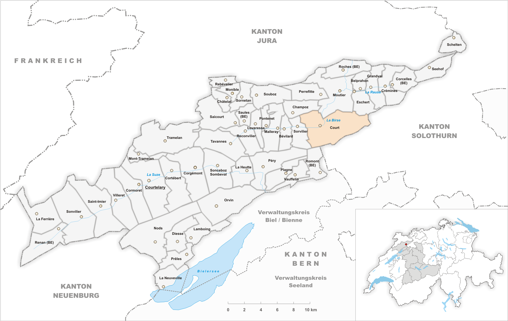 Municipality Court